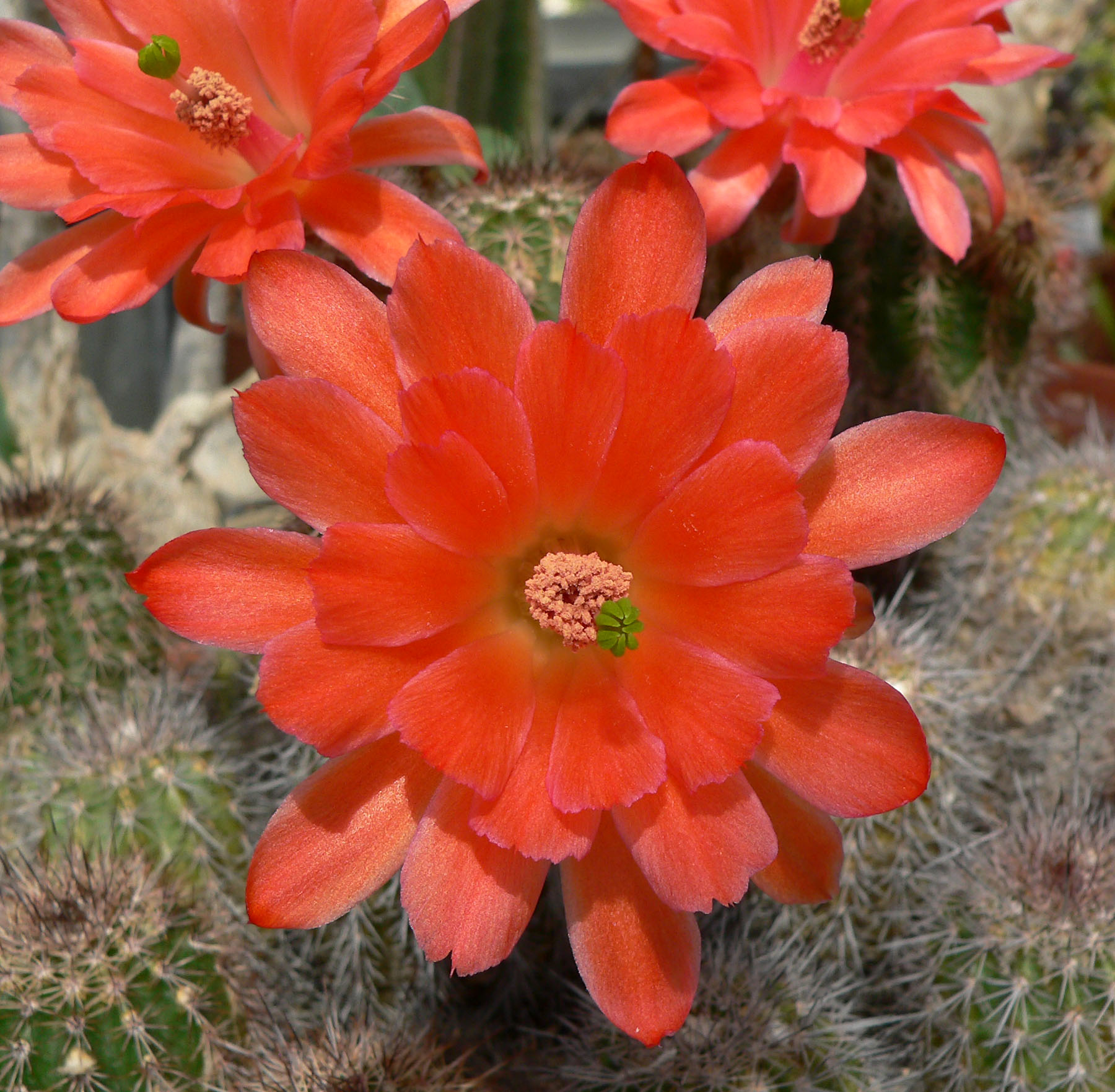 Echinocereus polyacanthus subsp. huitcholensis at the University of California Botanical Garden, Berkeley, California